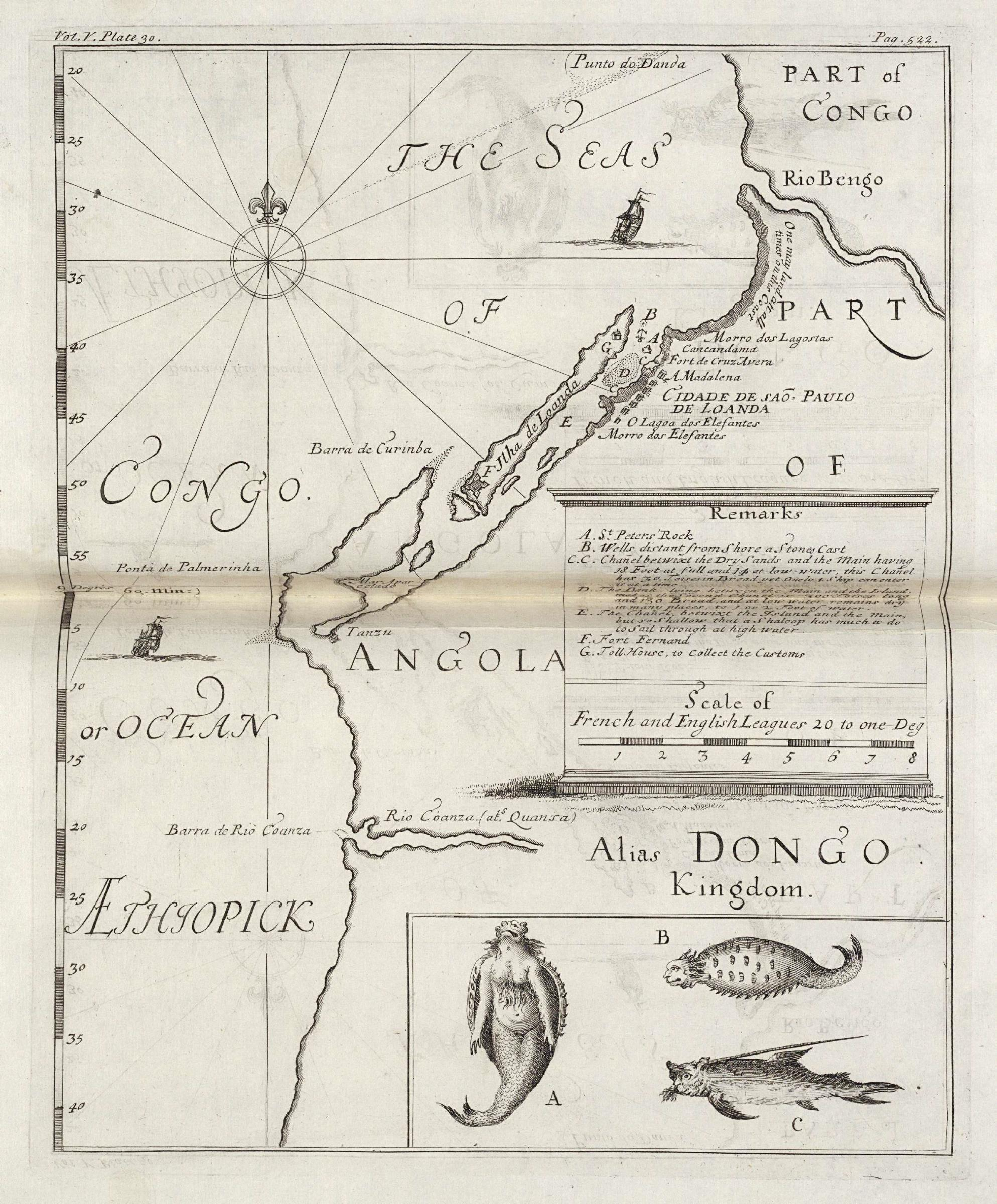 Map of the Angolan coast. Top left: Vol. V. Plate 30. Top right: Pag. 522. Key: A-G. Fishes and fantasy figures are shown in the inset.